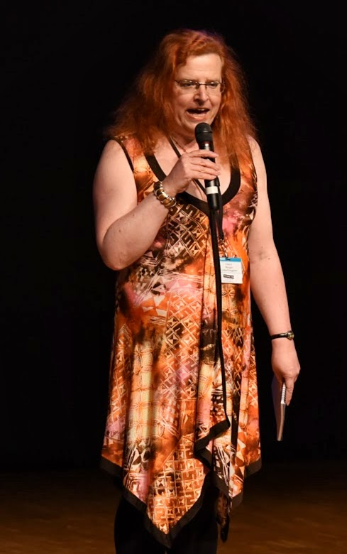 British science fiction fan, publisher and critic Cheryl Morgan at Archipelacon 2015.